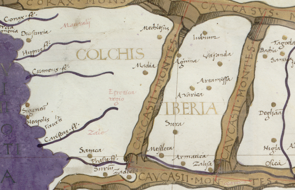 Colchis Iberia